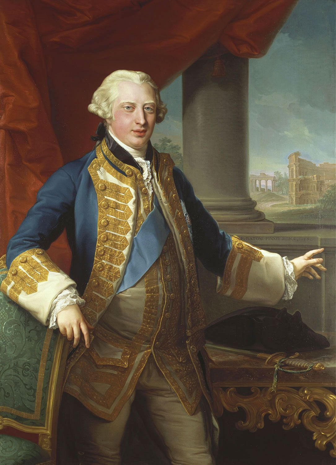 Portrait of Edward Augustus, Duke of York and Albany